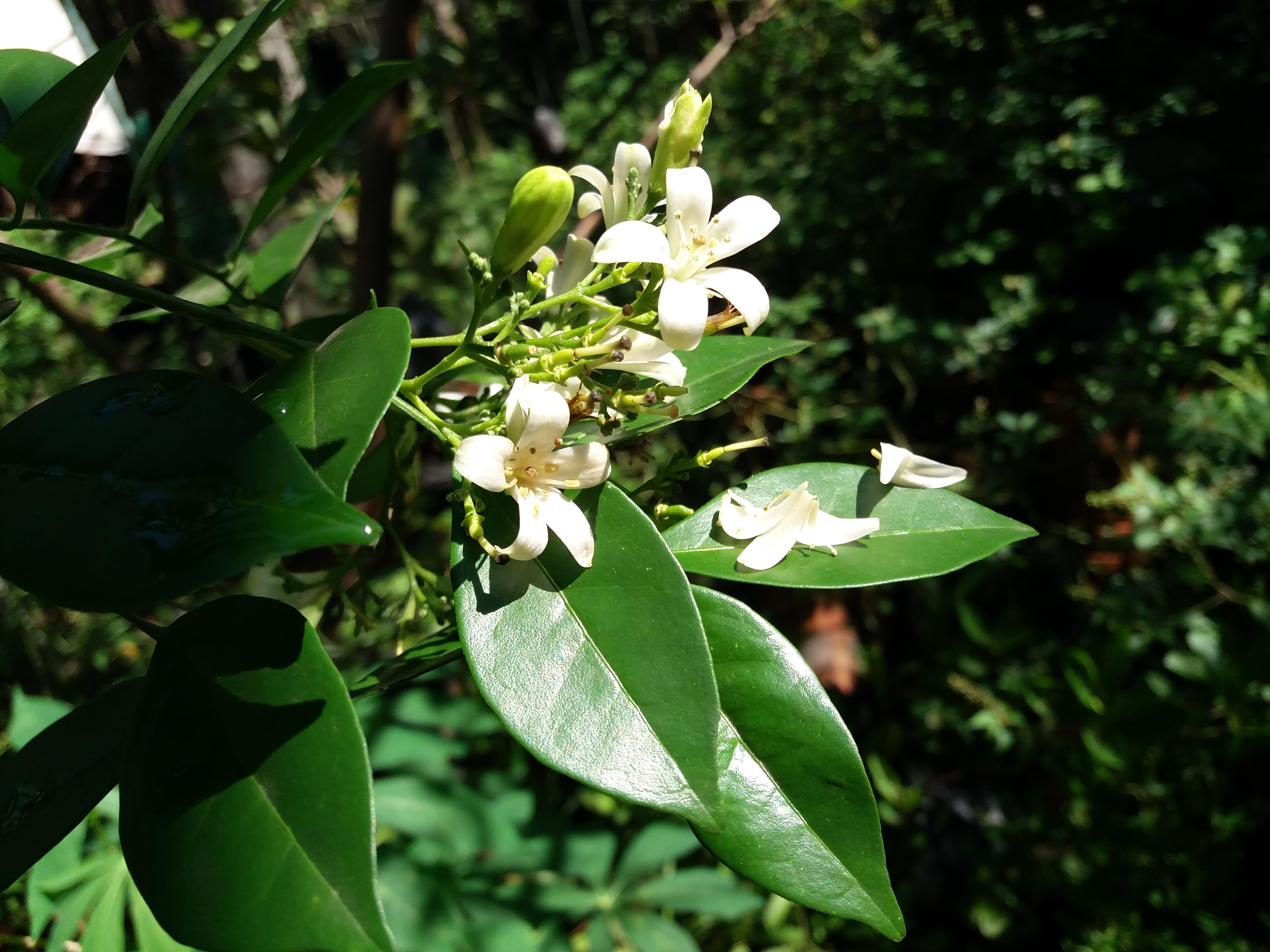 A blooming jasmine orange.